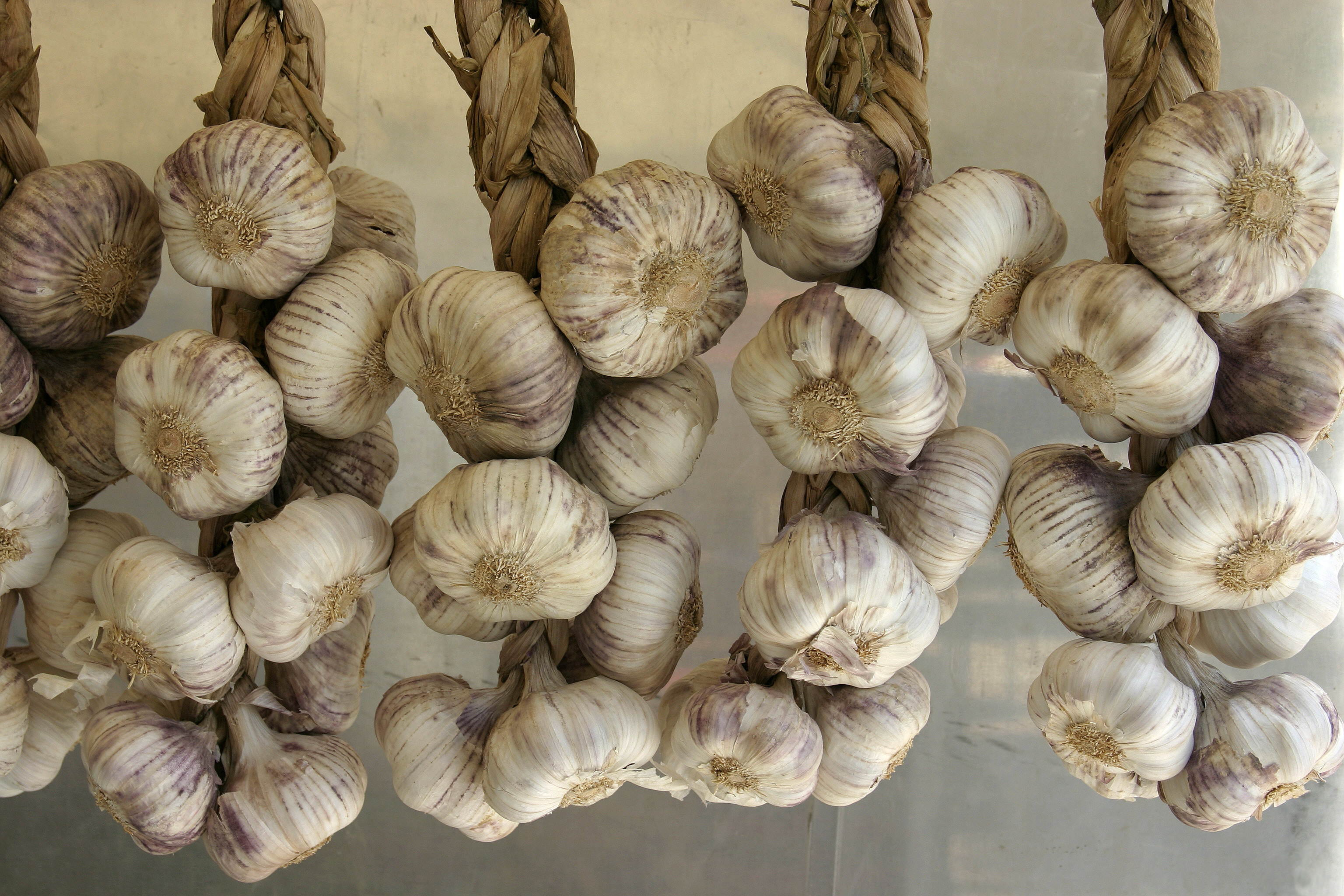 Garlic